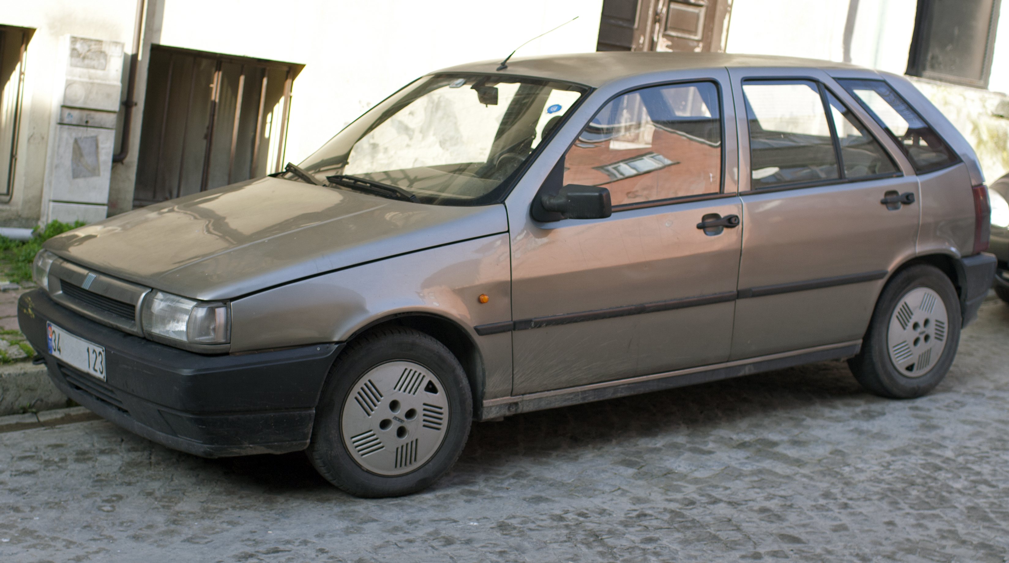 Tofaş-Fiat Tipo 1.4 (carburated version) seen in Istanbul. This is the post-1993 facelift version.